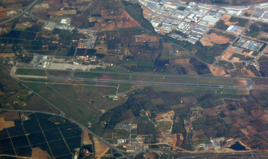 Reus Airport seen from the sky.